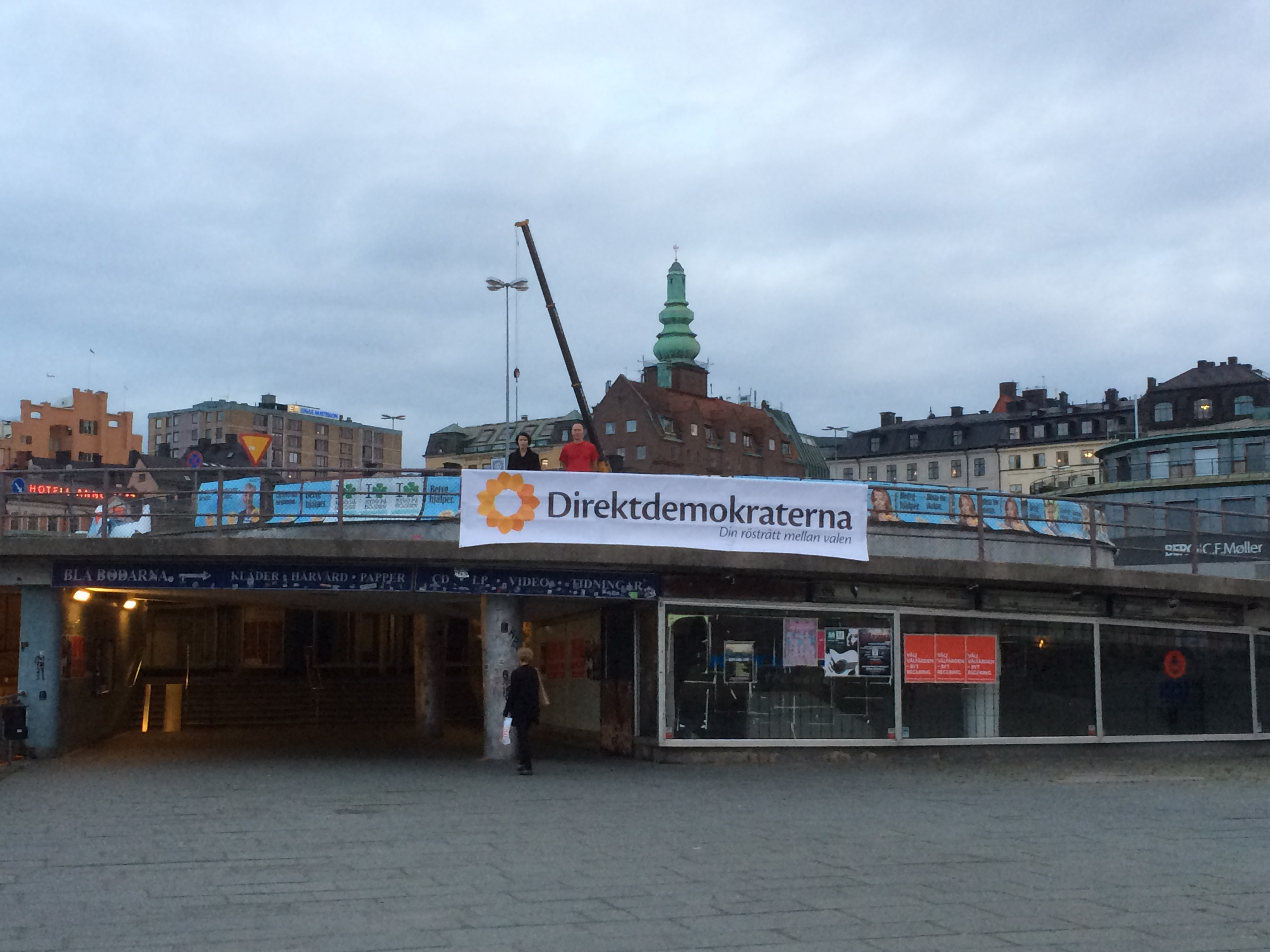 Before the 2014 election Direktdemokraterna in front of the controversial Slussen